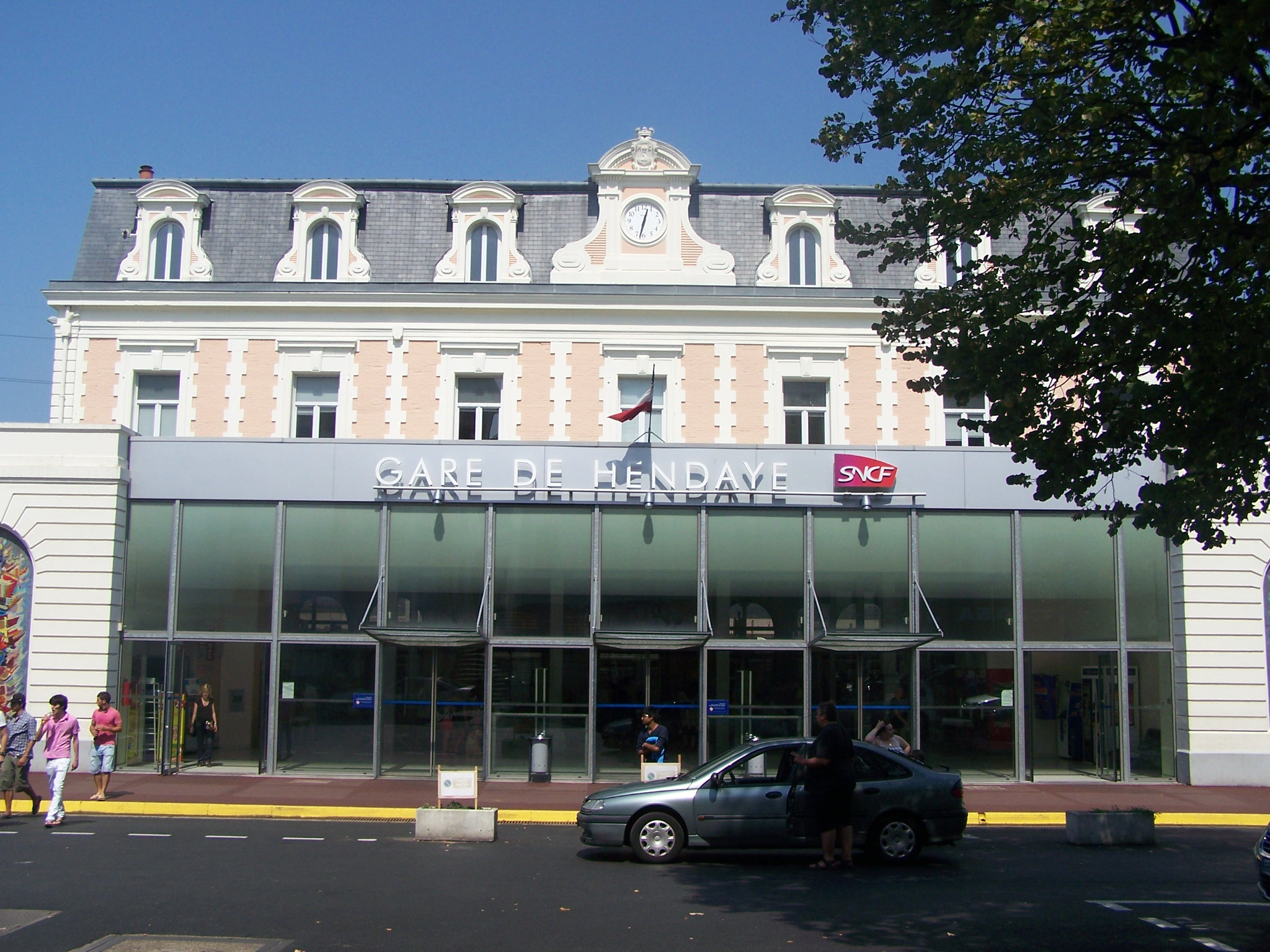 Front of the commune of Hendaye railway station, in the French department of Pyrénées-Atlantiques.